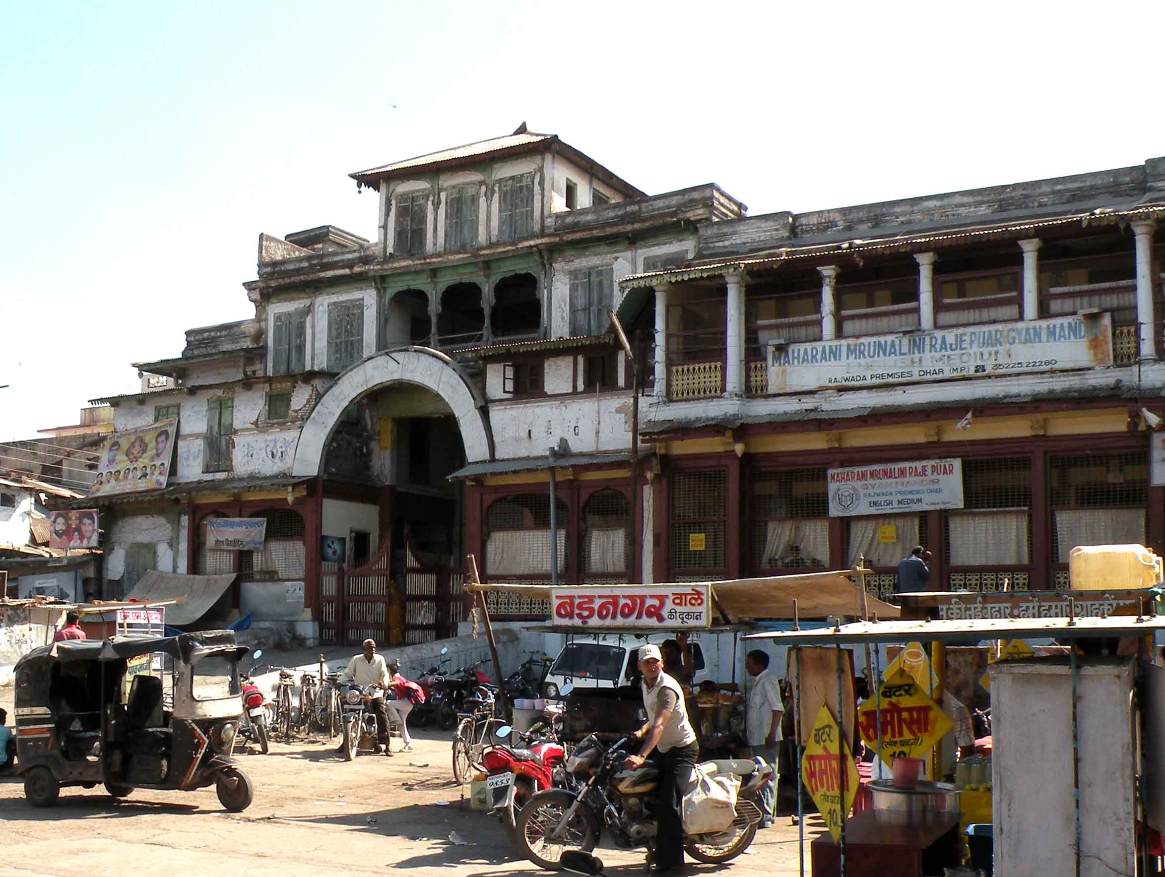 City Palace, built in 1875, Dhar, Madhya Pradesh, India